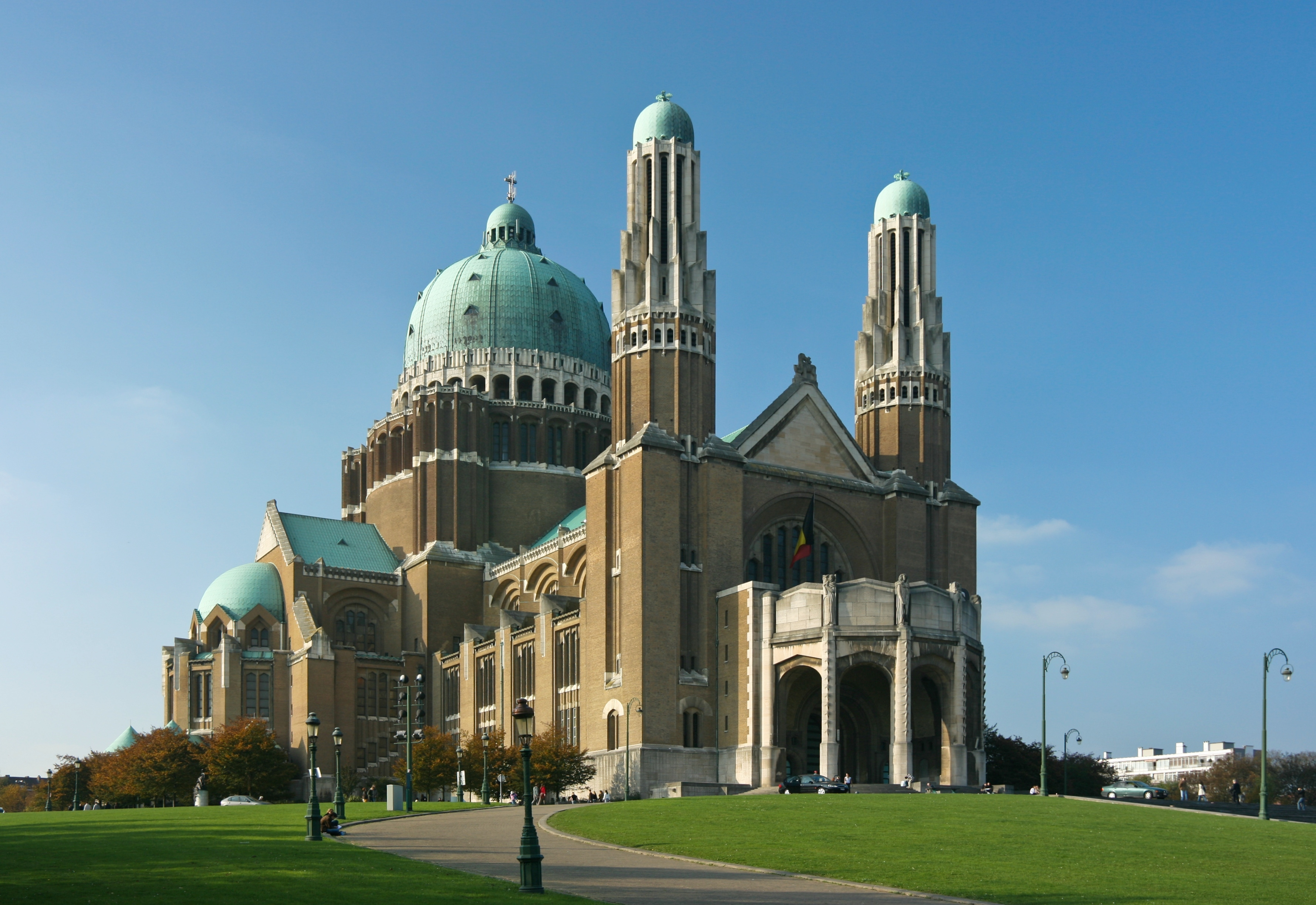 Basilica of the Sacred Heart, Belgium, with da Vinci expo banners.